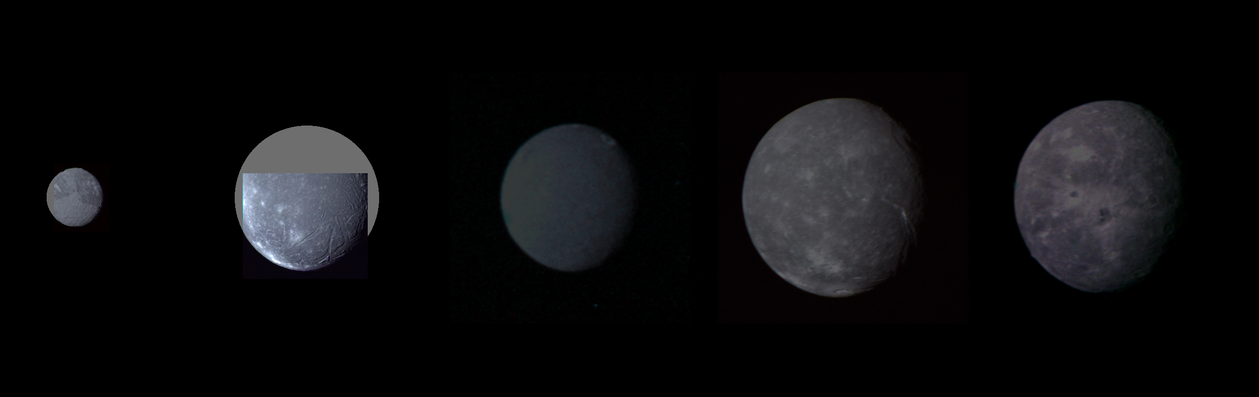 Montage of Uranus' five largest satellites. From left to right in order of increasing distance from Uranus are Miranda, Ariel, Umbriel, Titania and Oberon. Images are presented to show correct relative sizes and brightness. Coverage is incomplete for Miranda and Ariel; gray circles depict missing areas (original caption from NASA though revised as image has been rotated)